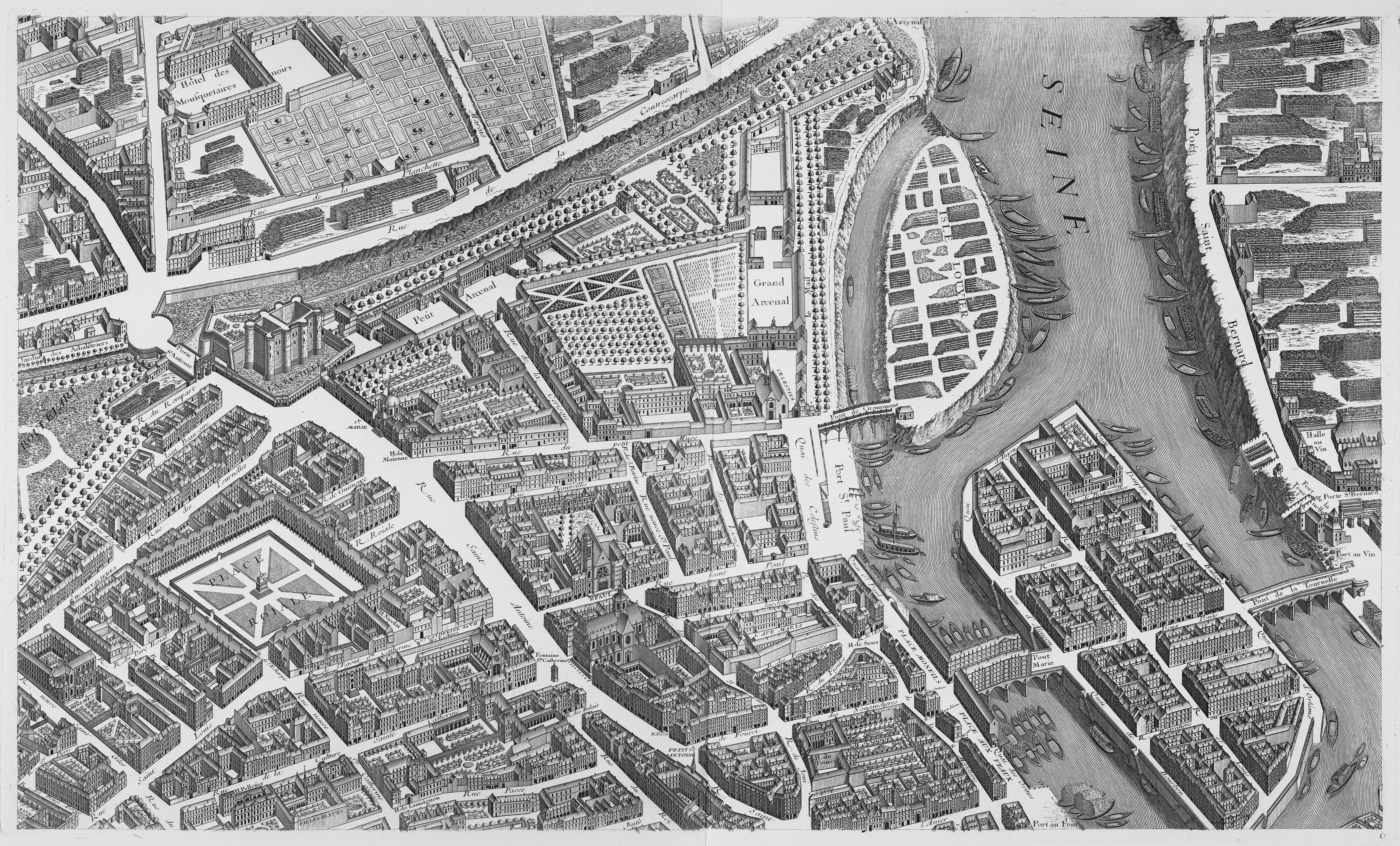 Plate 6 of the Turgot map of Paris